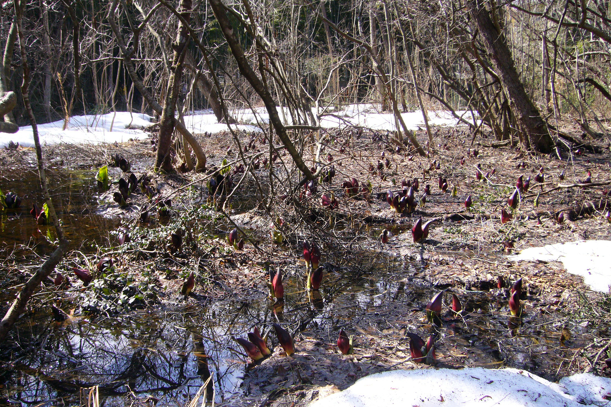 The Colony of Eastern Skunk Cabbage in Imazu, Takashima, Shiga prefecture, Japan